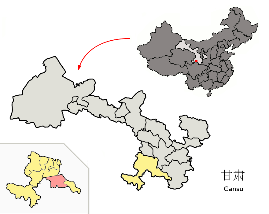 Location of Têwo County (pink) and Gannan Prefecture (yellow) within Gansu province of China Map drawn in september 2007 using various sources, mainly : Gansu province administrative regions GIS data: 1:1M, County level, 1990 Gansu Counties map from